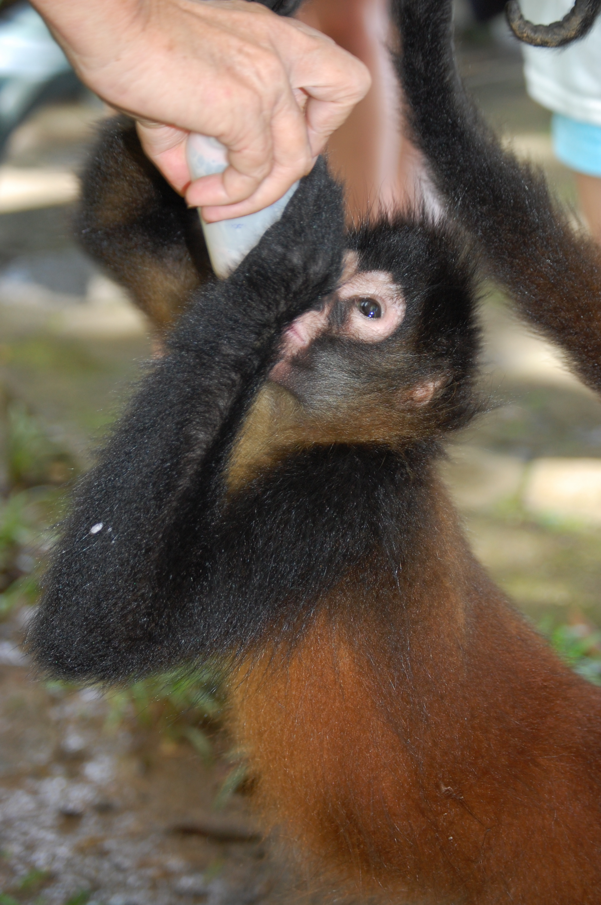 Juvenile (22-month-old) female Panama spider monkey (sometimes considered a synonym for Ateles geoffroyi ornatus) at the Caña Blanca wildlife sanctuary on the Golfo Dulce, Costa Rica. (The caretakers named this monkey "Winky.") She is being raised and socialized for eventual reintroduction into the wild. Note that her face will turn a darker blackish color as she matures.